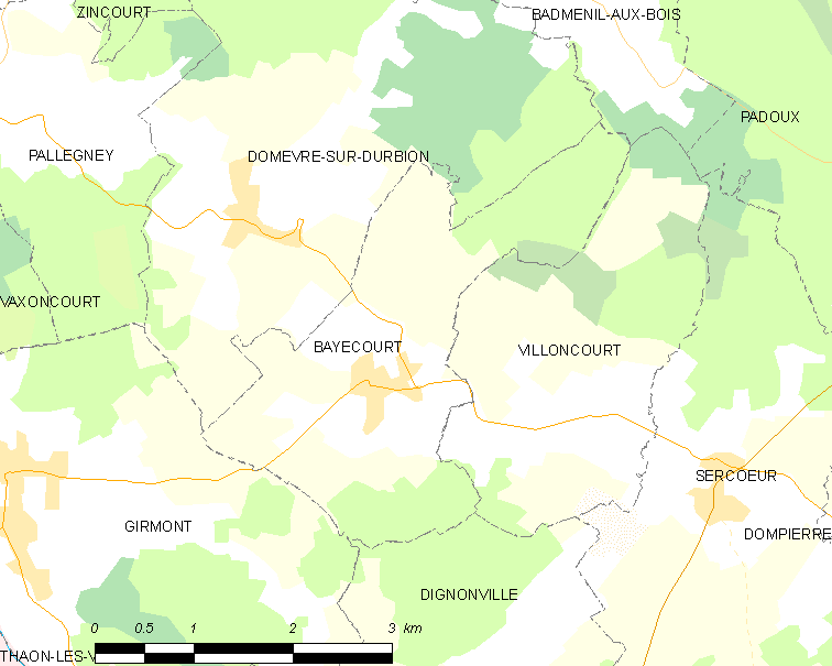 Map of French municipality Bayecourt